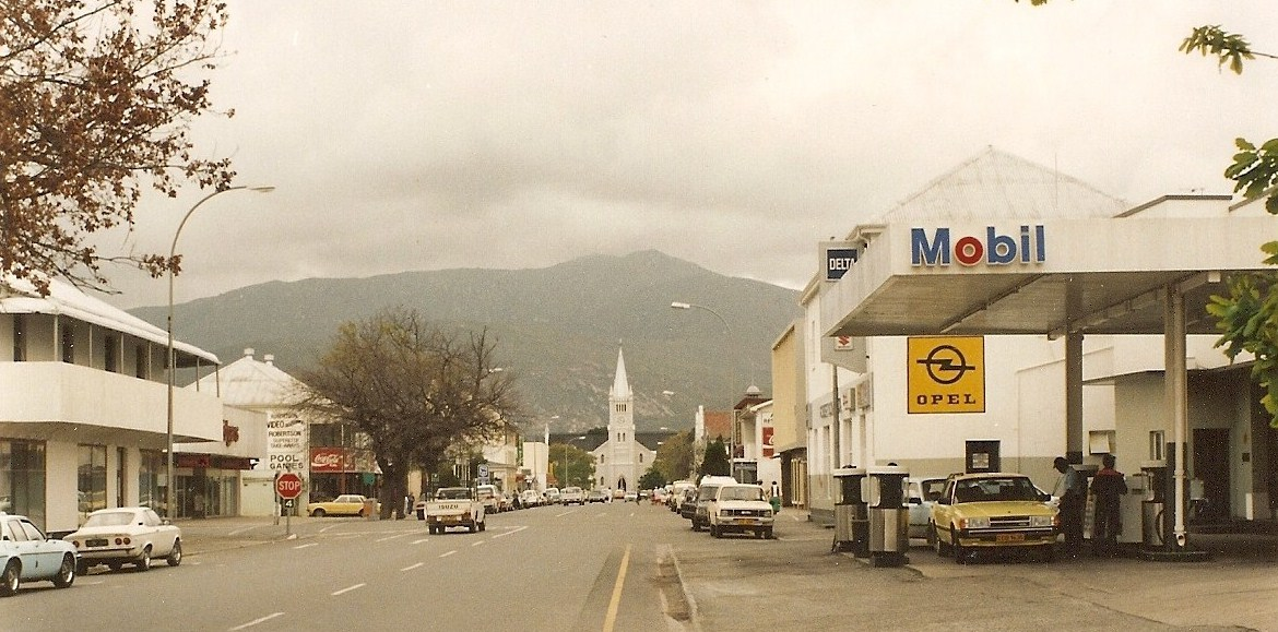 Robertson, Western Cape (not Barrydale)